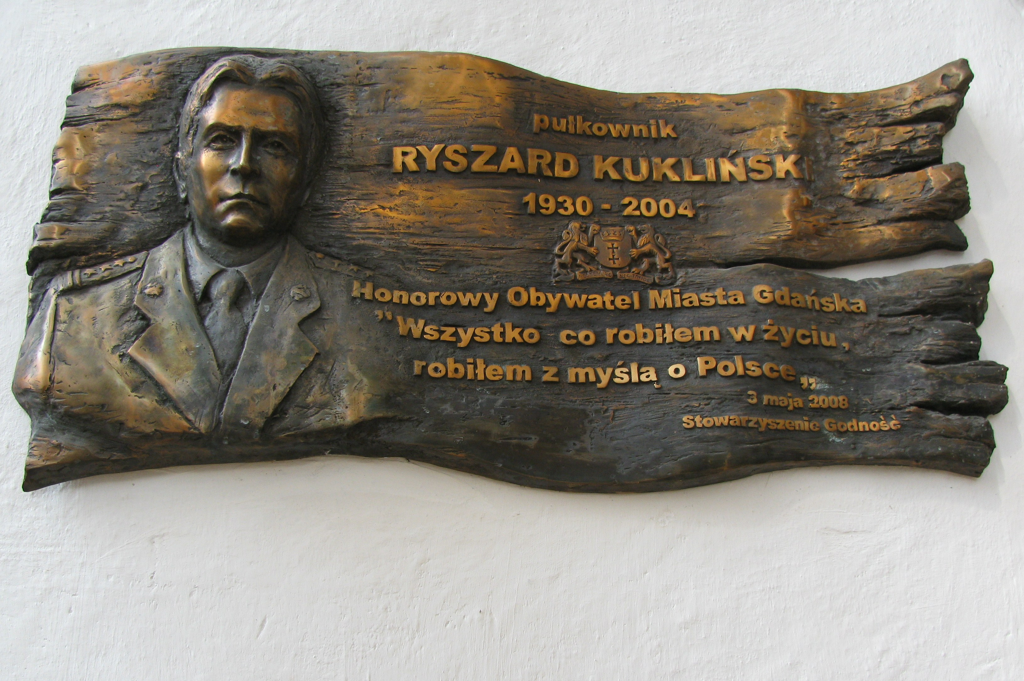 A Ryszard Kukliński plaque in the church of St. Mary in Gdańsk (Poland).